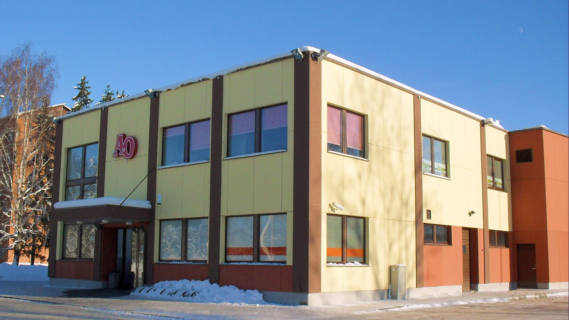 A&O Shop in Kehtna, Estonia